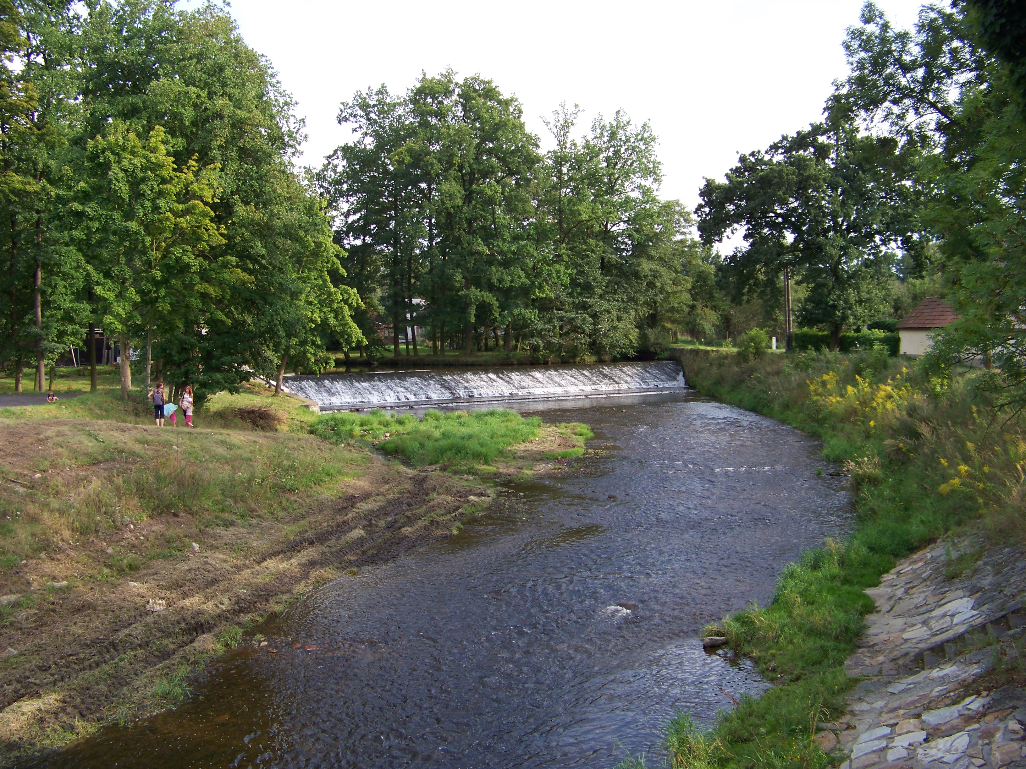 Volyně, Strakonice District, South Bohemian Region, Czech Republic. Volyňka river, a weir near the swimming pool. - OpenStreetMap(Info)